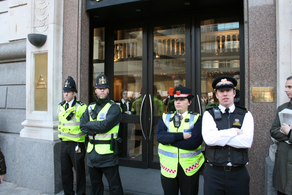 Scientologists peer out of the Church of Scientology London Queen Victoria Street building as police and community support officers guard the building, a lone Scientologist attempts to distribute Scientology material, and the protest is reflected in the buildings windows.